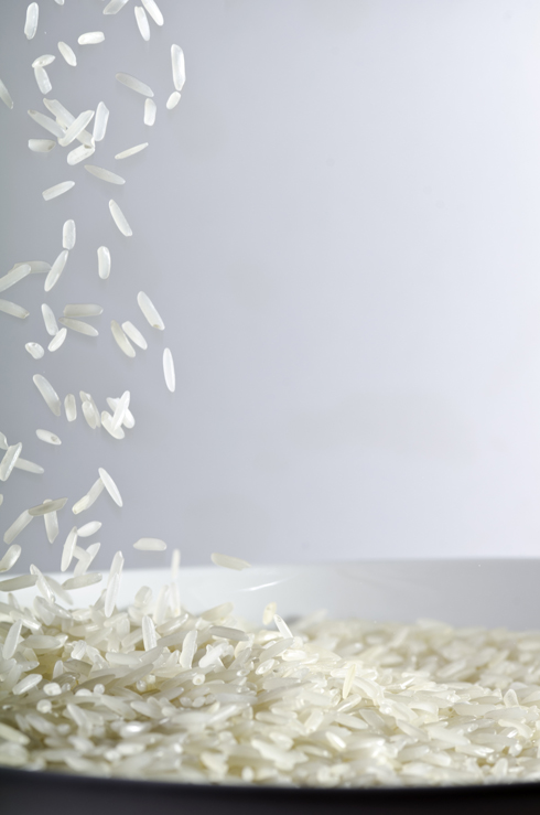 Staple diet of people living in South East Asia, China and Indian.